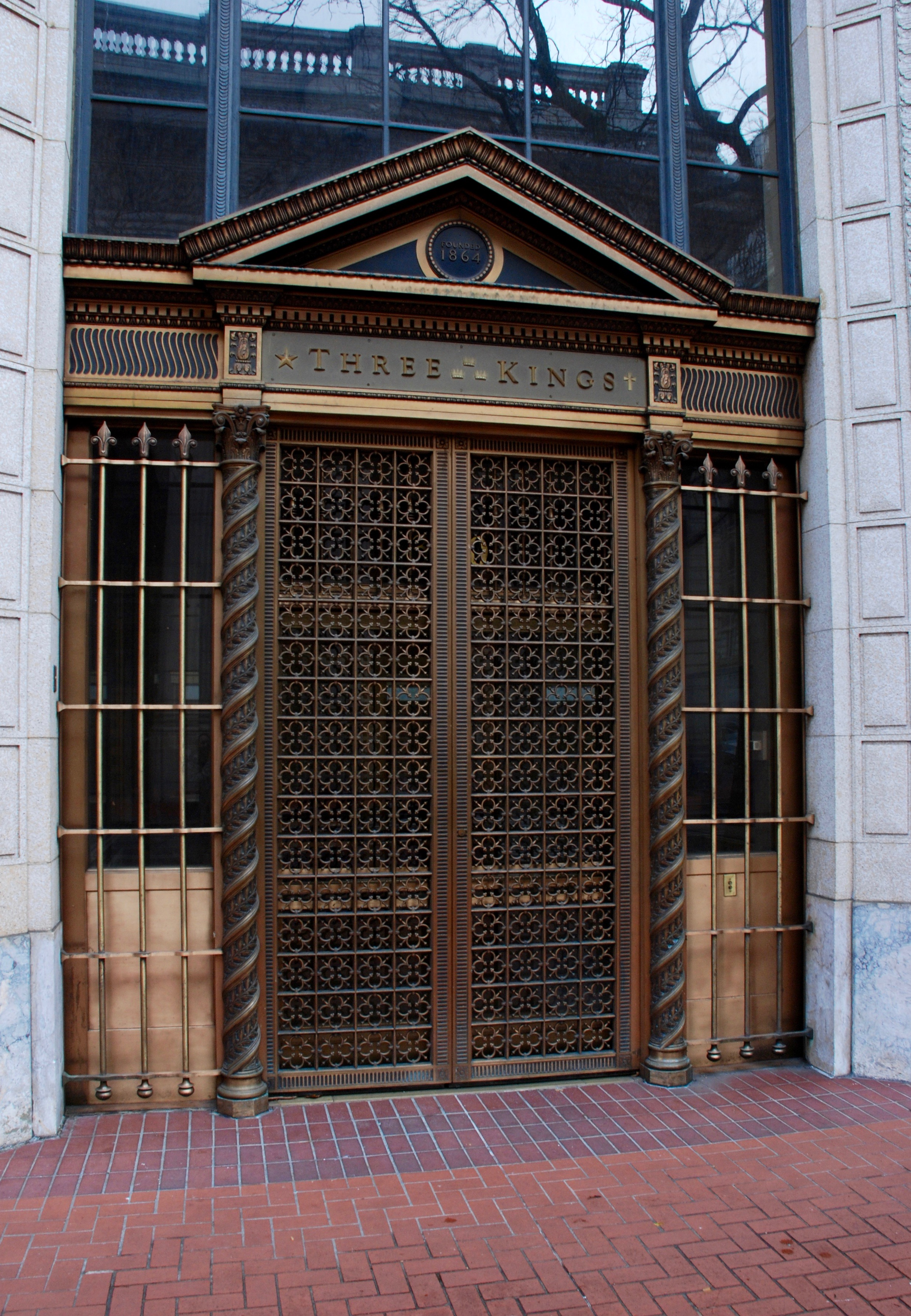 The central entrance of the historic Bank of California Building (built 1924–25), in Portland, Oregon, which since 2008 has been lettered as the Three Kings building.